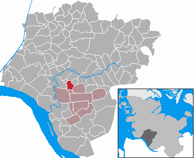 This map shows the area of the municipality Kremperheide in the Kreis (district) Steinburg, Schleswig-Holstein, Germany.